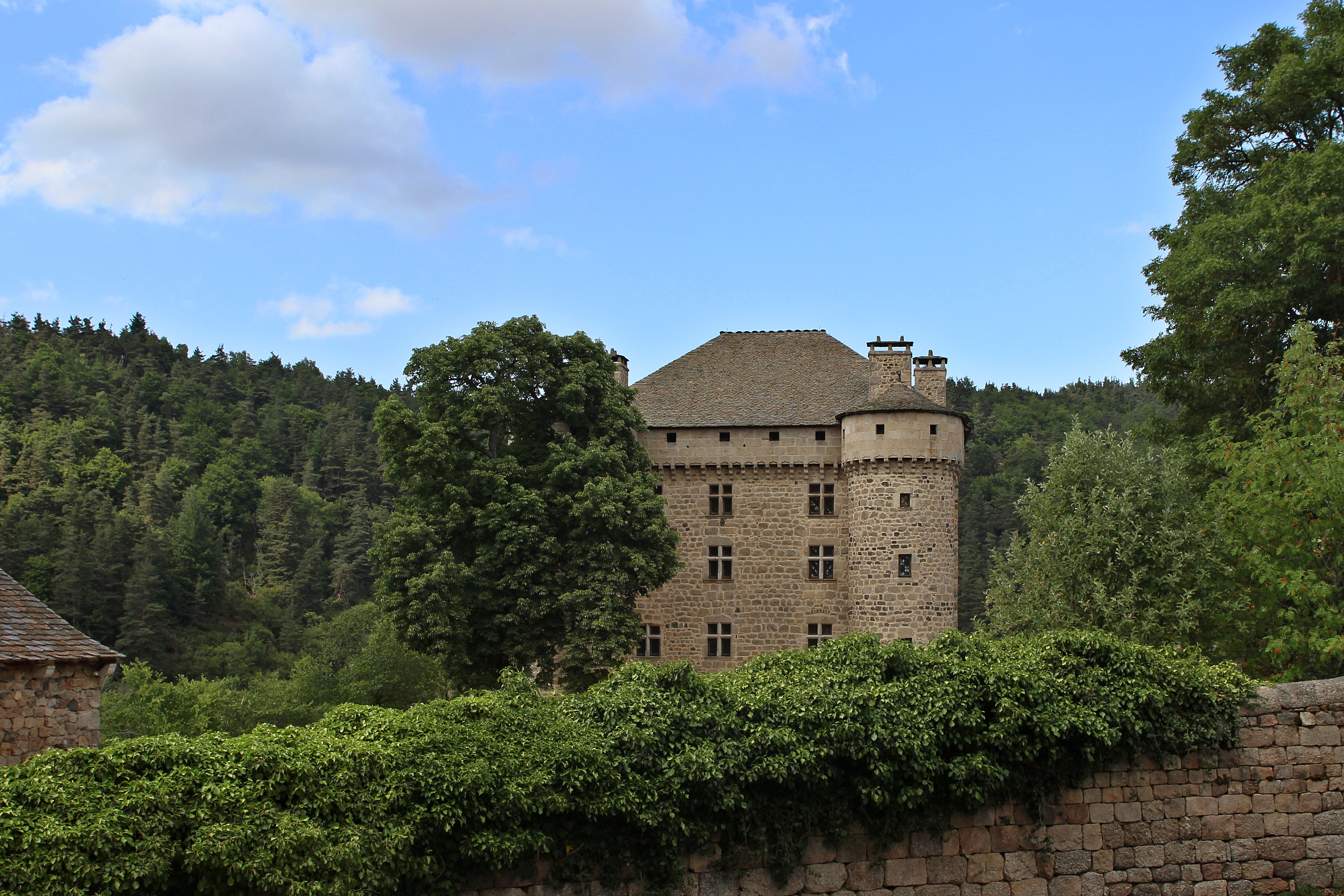 South facade of the Fort castle, near Chambon-le-Château, in the Lozère département (France).